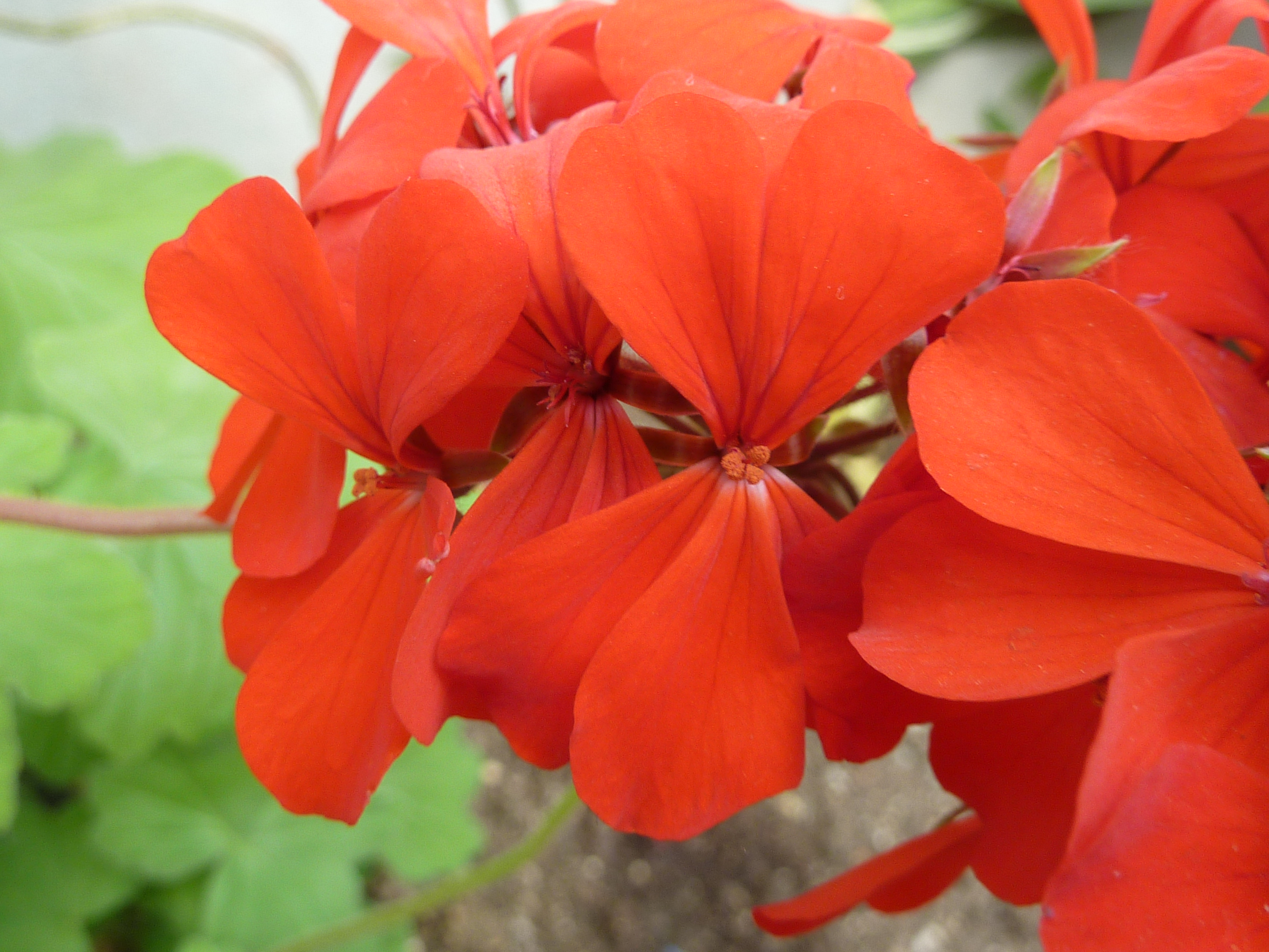 Taken in the Cambridge University Botanic Garden.